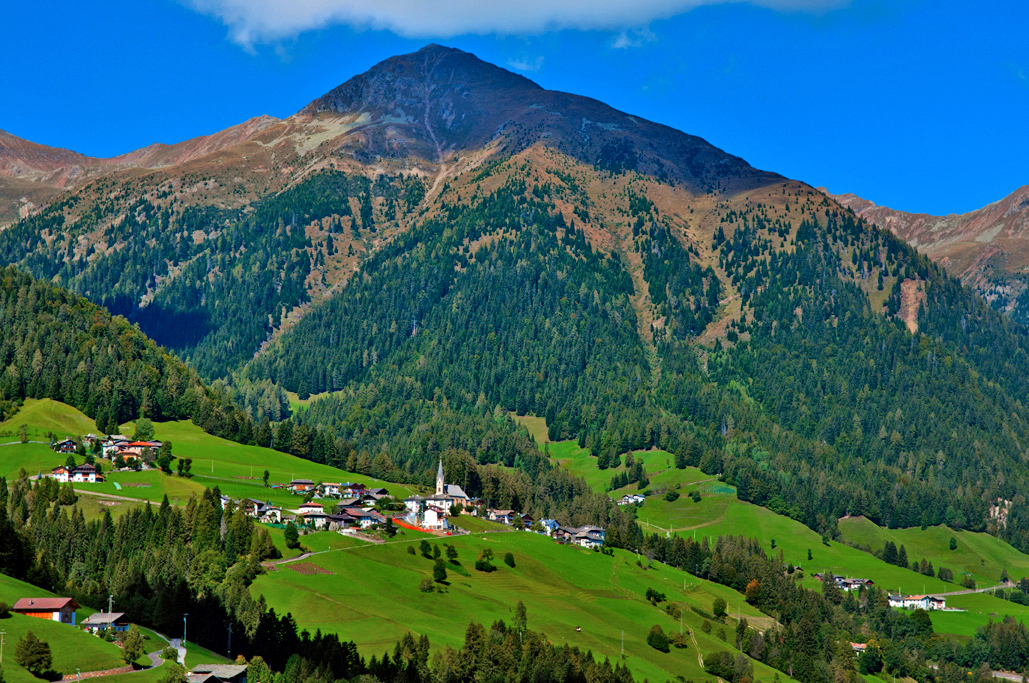 39040 Proveis, Province of Bolzano - South Tyrol, Italy